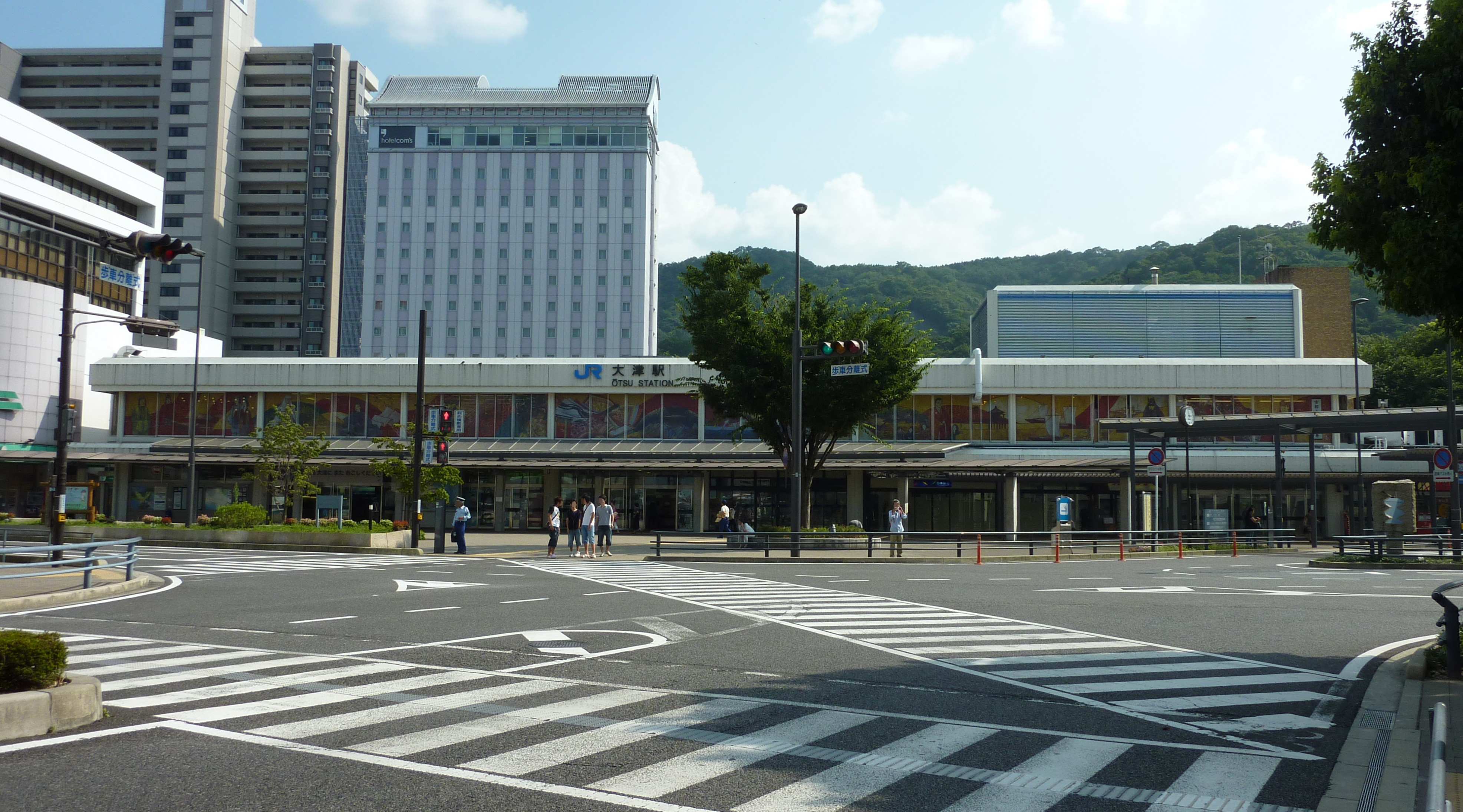 West Japan Railway Tōkaidō Main Line (Biwako Line) Otsu Station Building North Gate